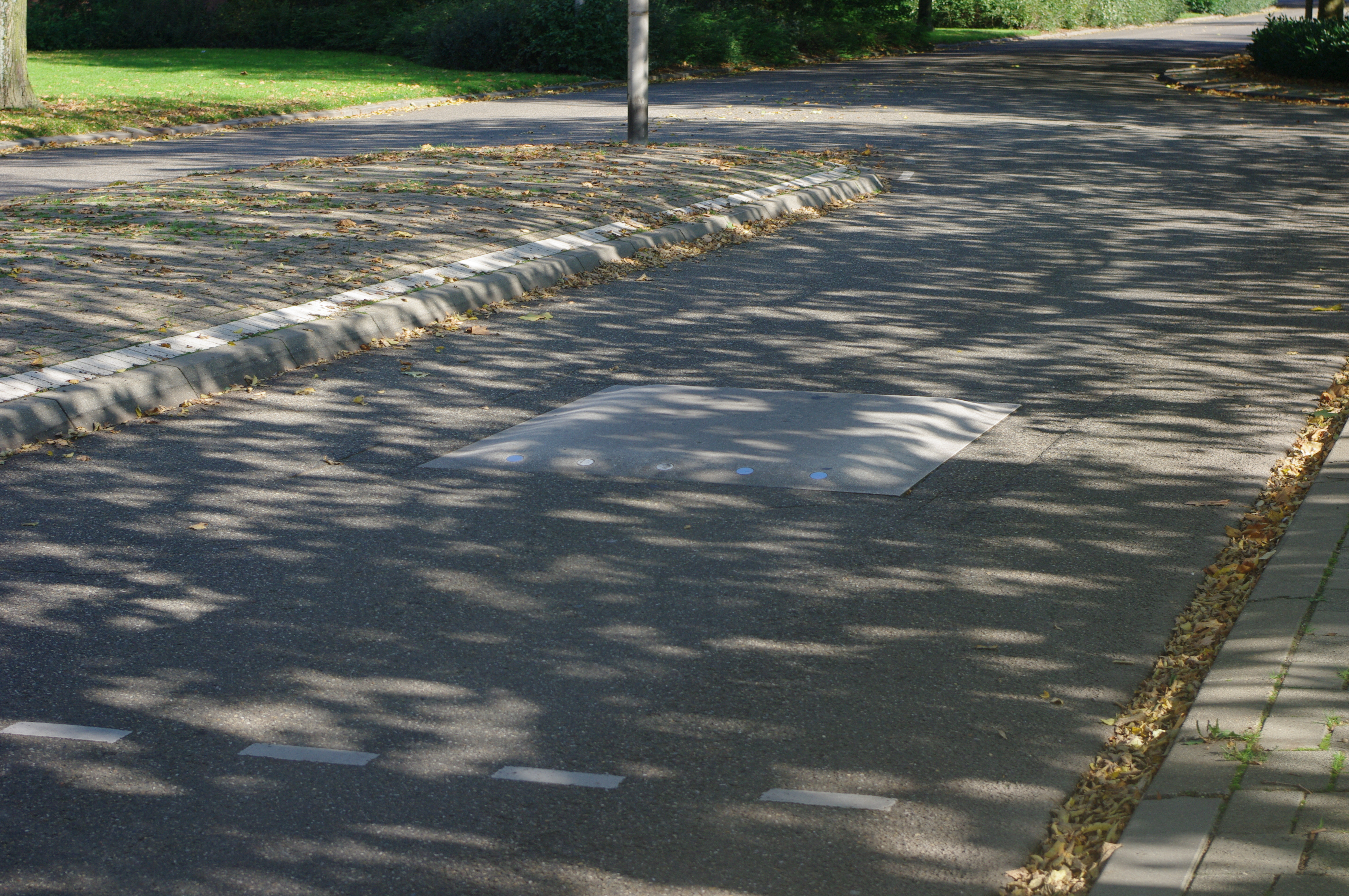 A speed cushion in the Netherlands